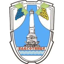 Small coat of arms of the city and municipality of Vlasotince